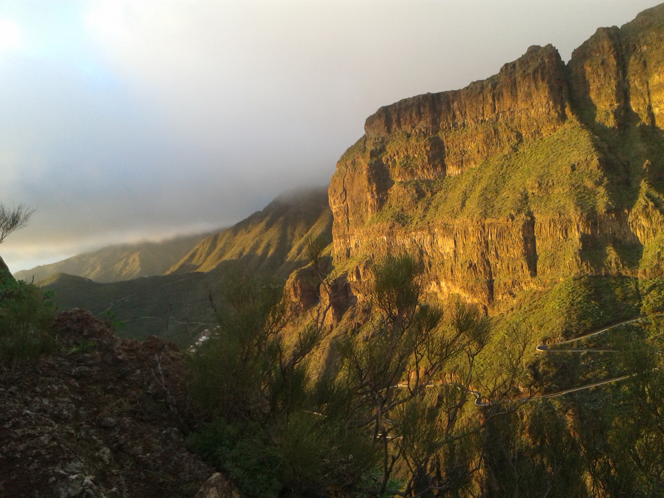 View of Barranco de Masca in the golden hour. Taken at approximately 5:40 pm on December 15th, 2014.